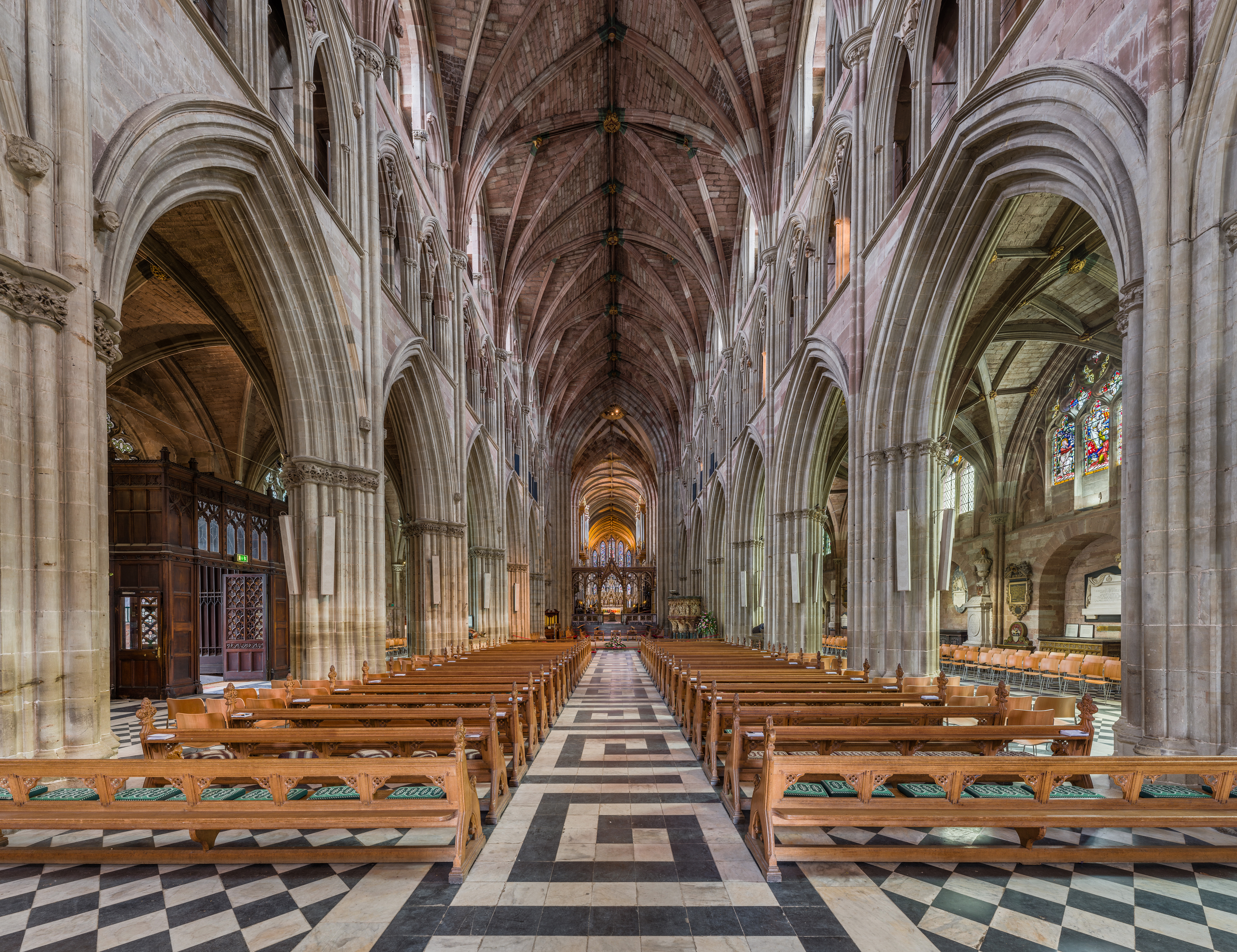 The nave of Worcester Cathedral in Worcestershire, England.